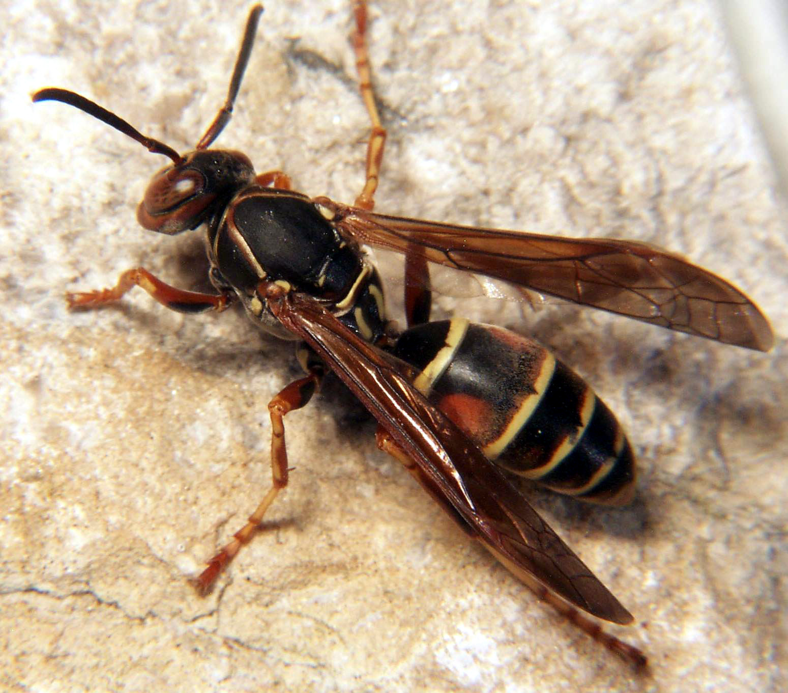 jpeg image, paper wasp, Polistes fuscatus sterile female worker".